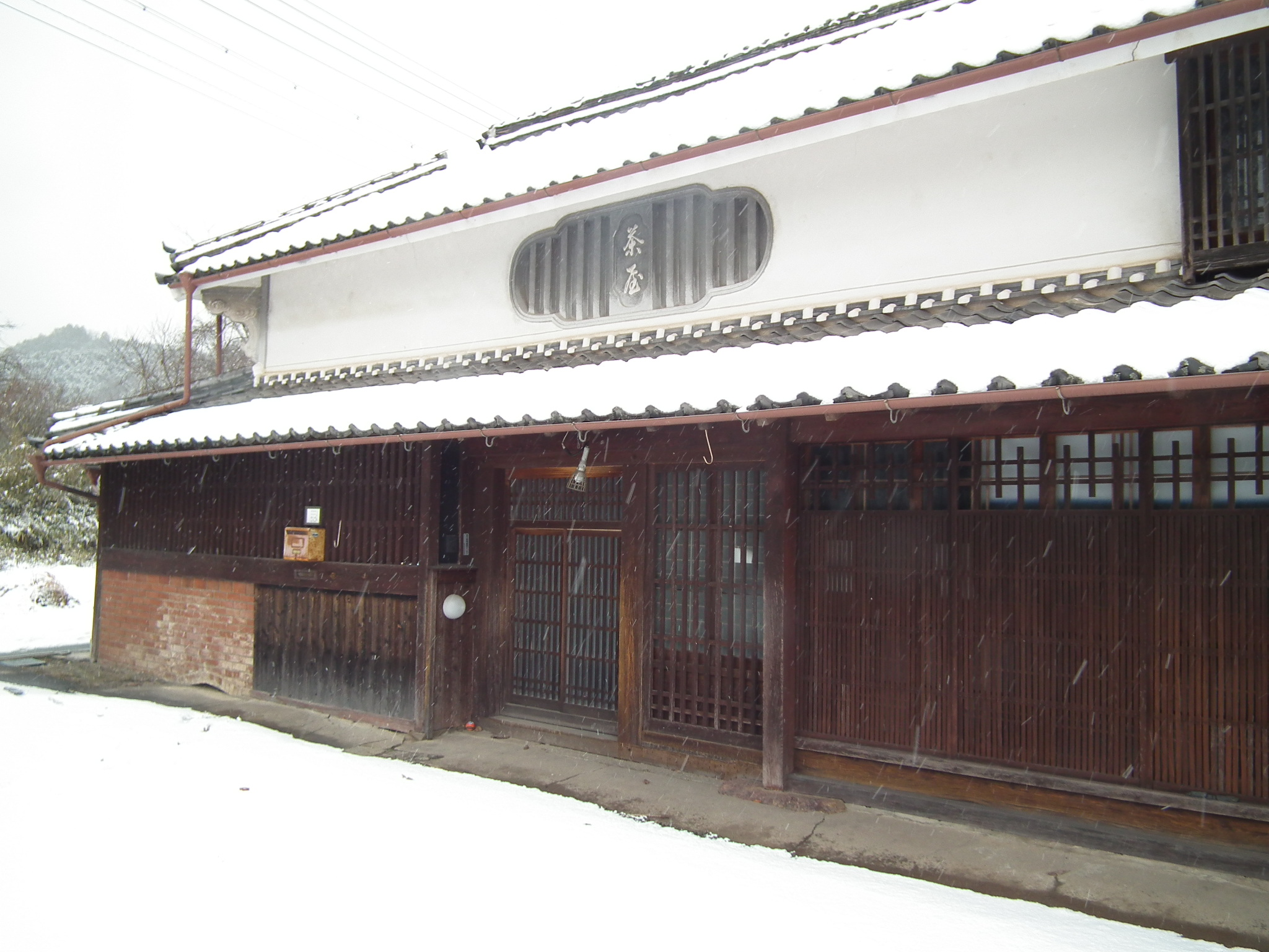 Jubei-chaya